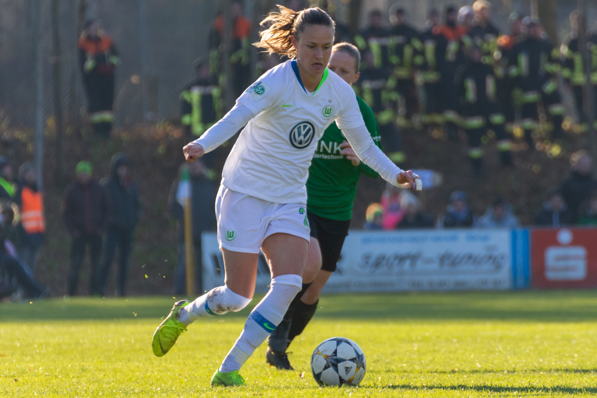 Caroline Graham Hansen during the DFB-Pokal match vs FC Forstern